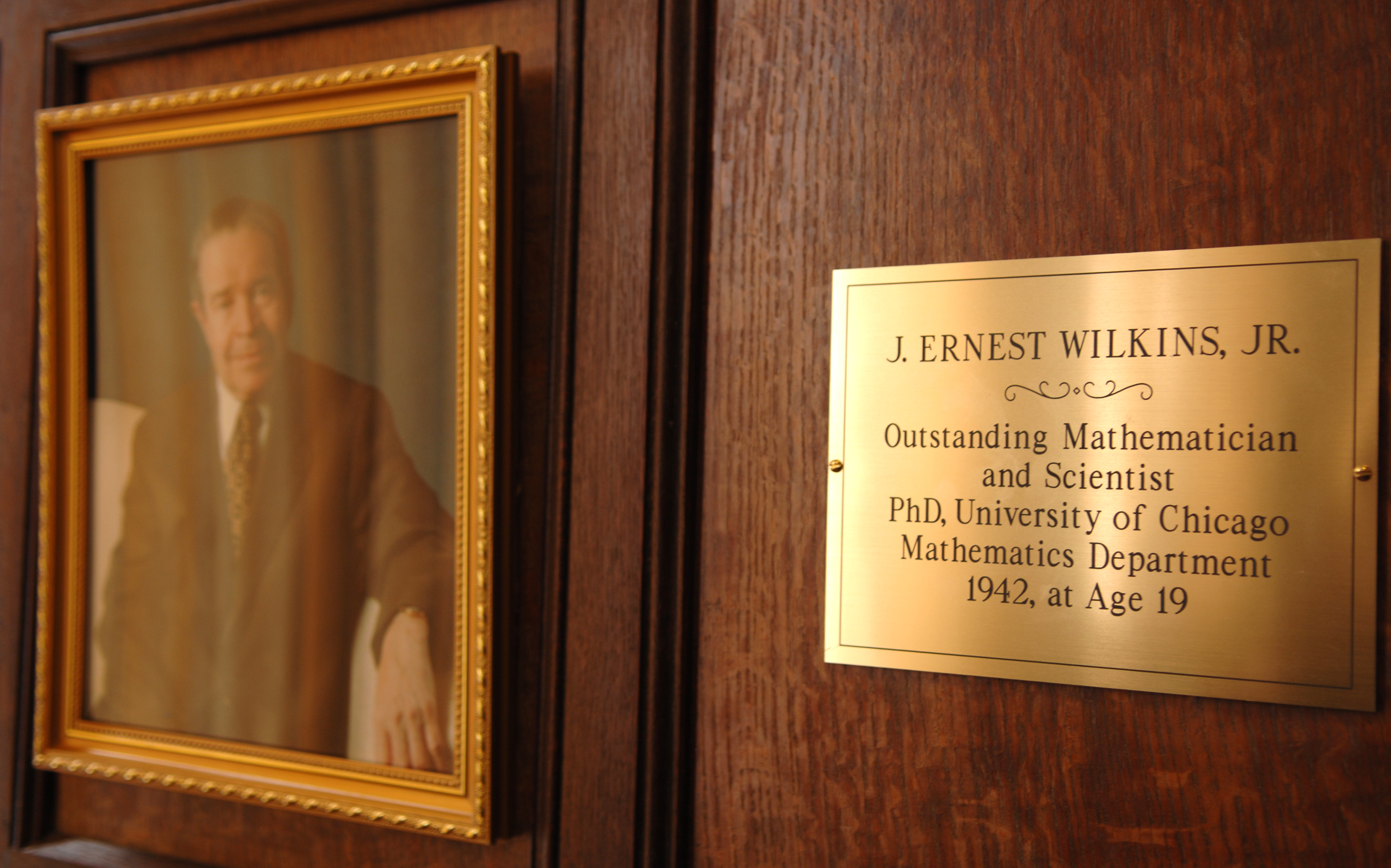 "J. Ernest Wilkins Jr., who received a Ph.D. in mathematics from the University of Chicago as a 19-year-old in 1942, [was] honored by the [University of Chicago] at a special event [that began] at 2 p.m. Friday, March 2, room 209 of Eckhart Hall, 1118 E. 58th Street."